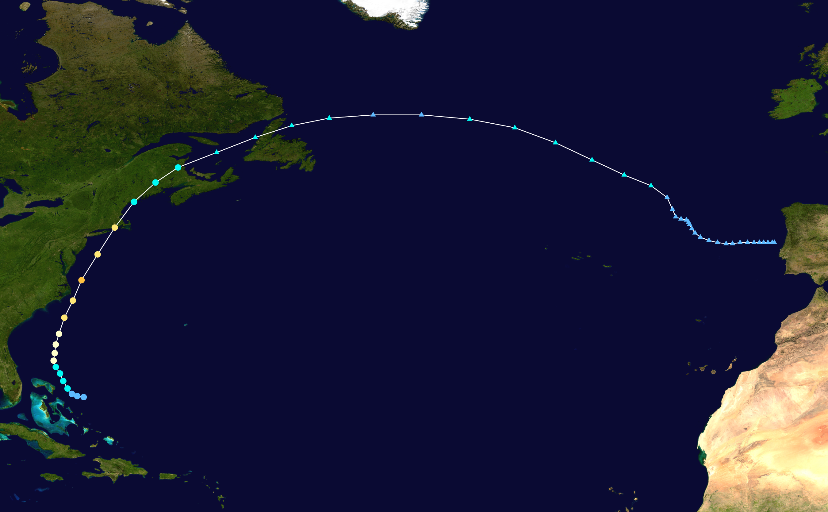 Track map of Hurricane Bob of the 1991 Atlantic hurricane season. The points show the location of the storm at 6-hour intervals. The colour represents the storm's maximum sustained wind speeds as classified in the Saffir–Simpson scale (see below), and the shape of the data points represent the nature of the storm, according to the legend below. Saffir–Simpson scale Tropical depression≤38 mph≤62 km/h Category 3111–129 mph178–208 km/h Tropical storm39–73 mph63–118 km/h Category 4130–156 mph209–251 km/h Category 174–95 mph119–153 km/h Category 5≥157 mph≥252 km/h Category 296–110 mph154–177 km/h Unknown Storm type Tropical cyclone Subtropical cyclone Extratropical cyclone / Remnant low / Tropical disturbance / Monsoon depression